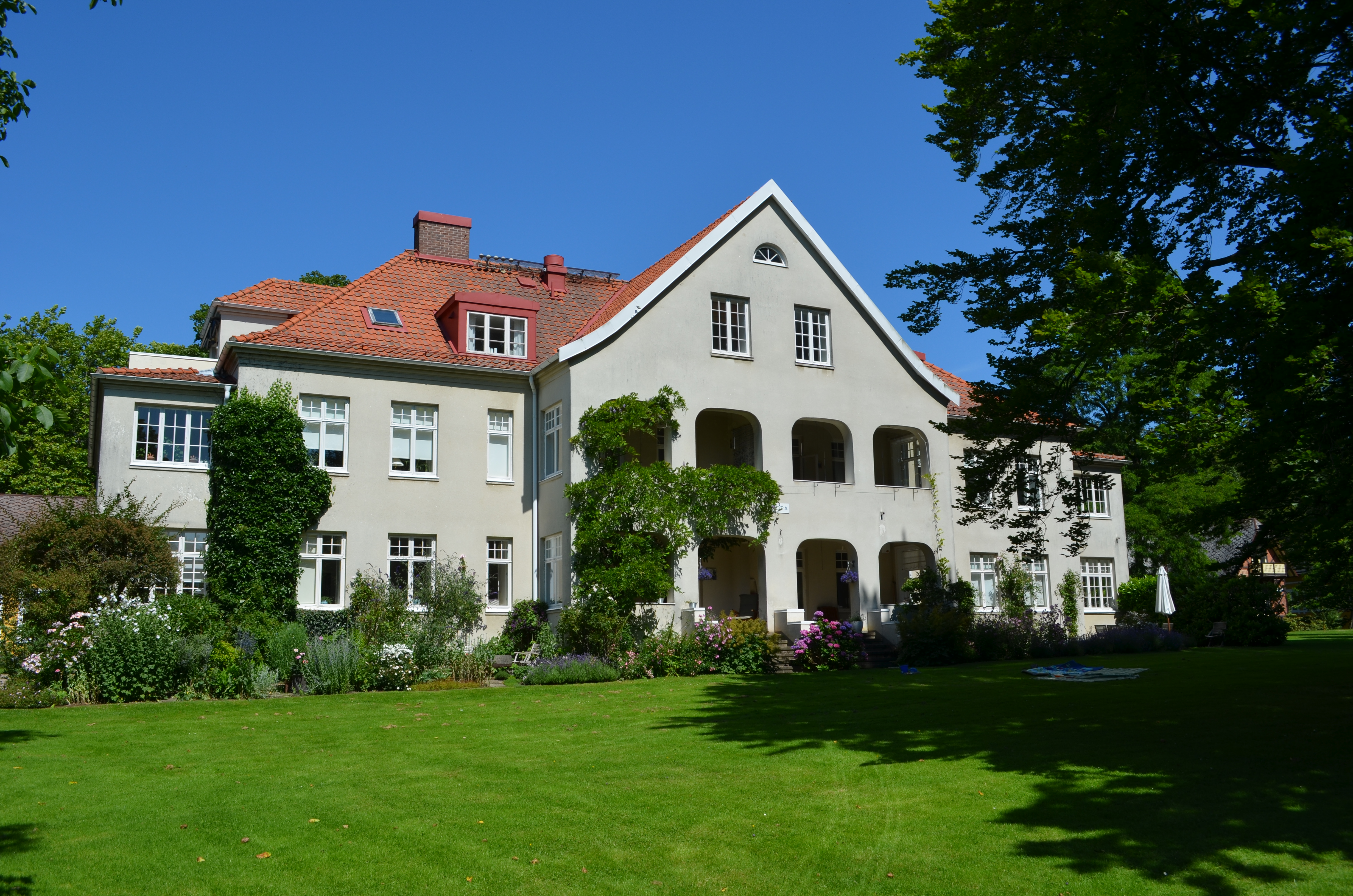 Villa Flora in Ramlösa hälsobrunn.